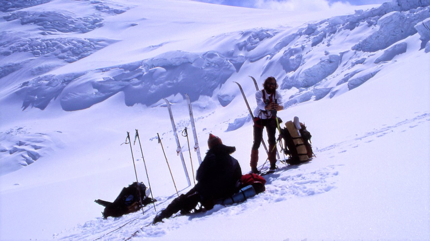 The Athabasca Glacier headwall (on the ramp), with the Columbia Icefield proper just marginally visible in the top right-of-centre of the image. The ramp's smooth snow is visible near the north edge of the headwall on most photos of the Athabasca Glacier. Doug and Vic taking a break as we reach the top of the headwall.